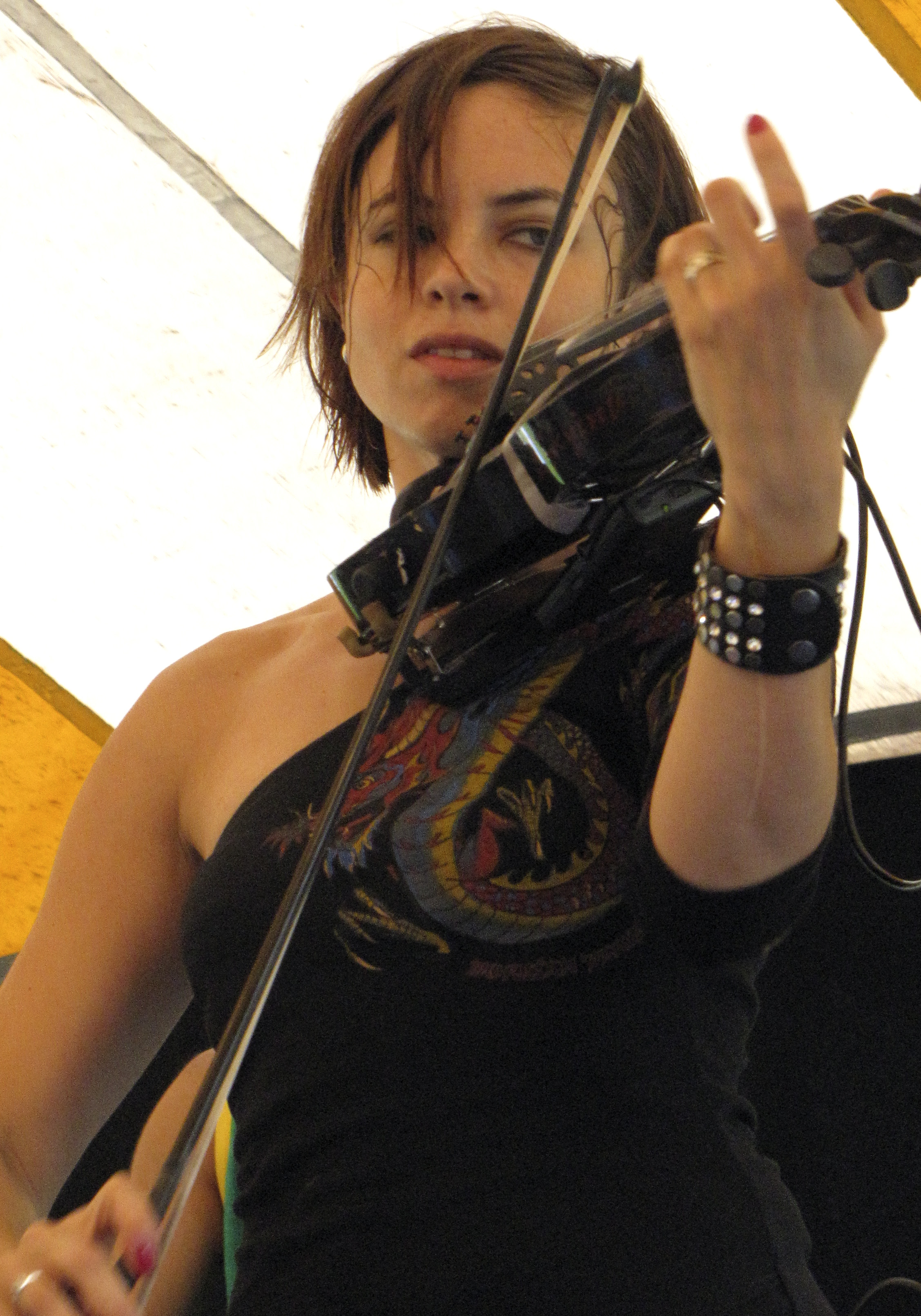 Violinist Kytami, performing with Delhi 2 Dublin at Summerfolk 2010